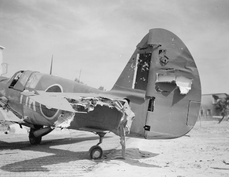 Royal Air Force- Italy, the Balkans and South-east Europe, 1942-1945. The damaged tail of Curtiss Kittyhawk Mark IV, FX529, of No. 450 Squadron RAAF, which was flown back to base at Cervia, Italy, by the Squadron Commander, Squadron Leader J C Doyle, after being hit by anti-aircraft fire during a ground attack sortie over the 8th Army Front.